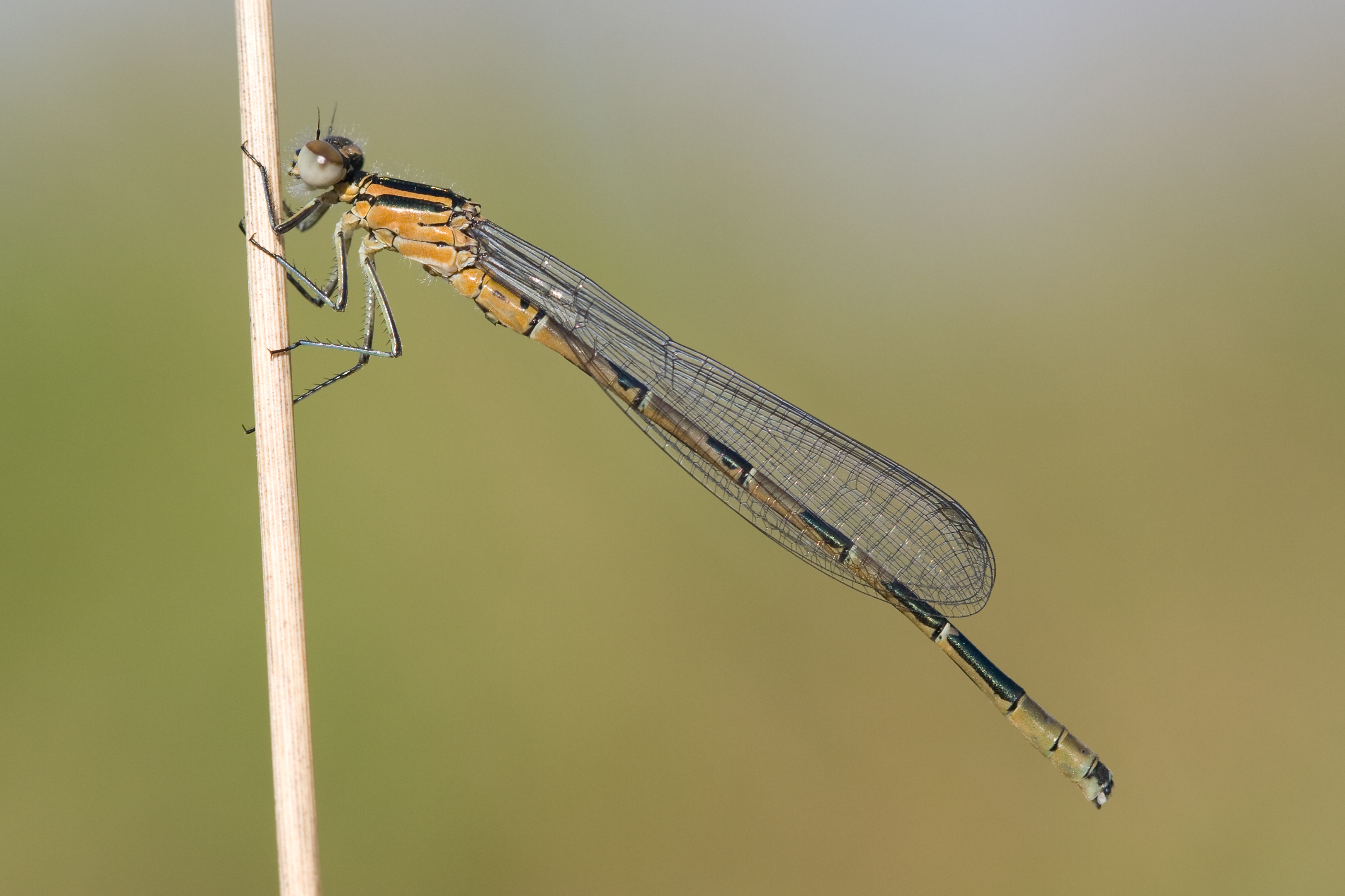 A straight hatched, still colorless male of the Northern Damselfly (Coenagrion hastulatum) in the Ahlenmoor, a peatland in northern Lower Saxony, Germany. The ripe damselfly will show a greenish blue base color, typical for the Northern Damselfly.Through the long cold period in March and April of 2013, the hatching time of Coenagrion hastulatum was shifted about 3 weeks back, compared to previous years.